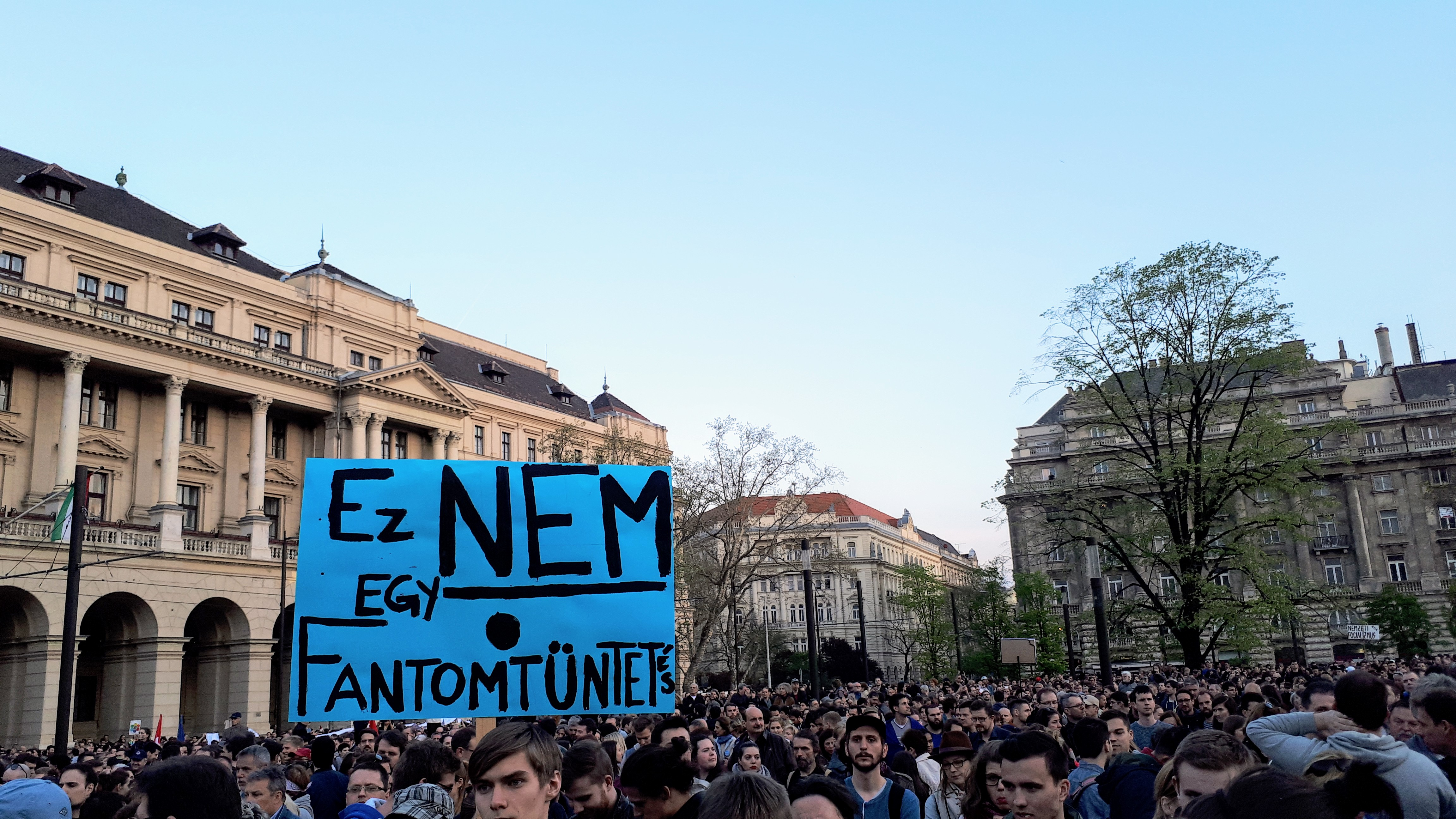 Protest against the legislation threatening Central European University, at 2017-04-09, near the Parliament